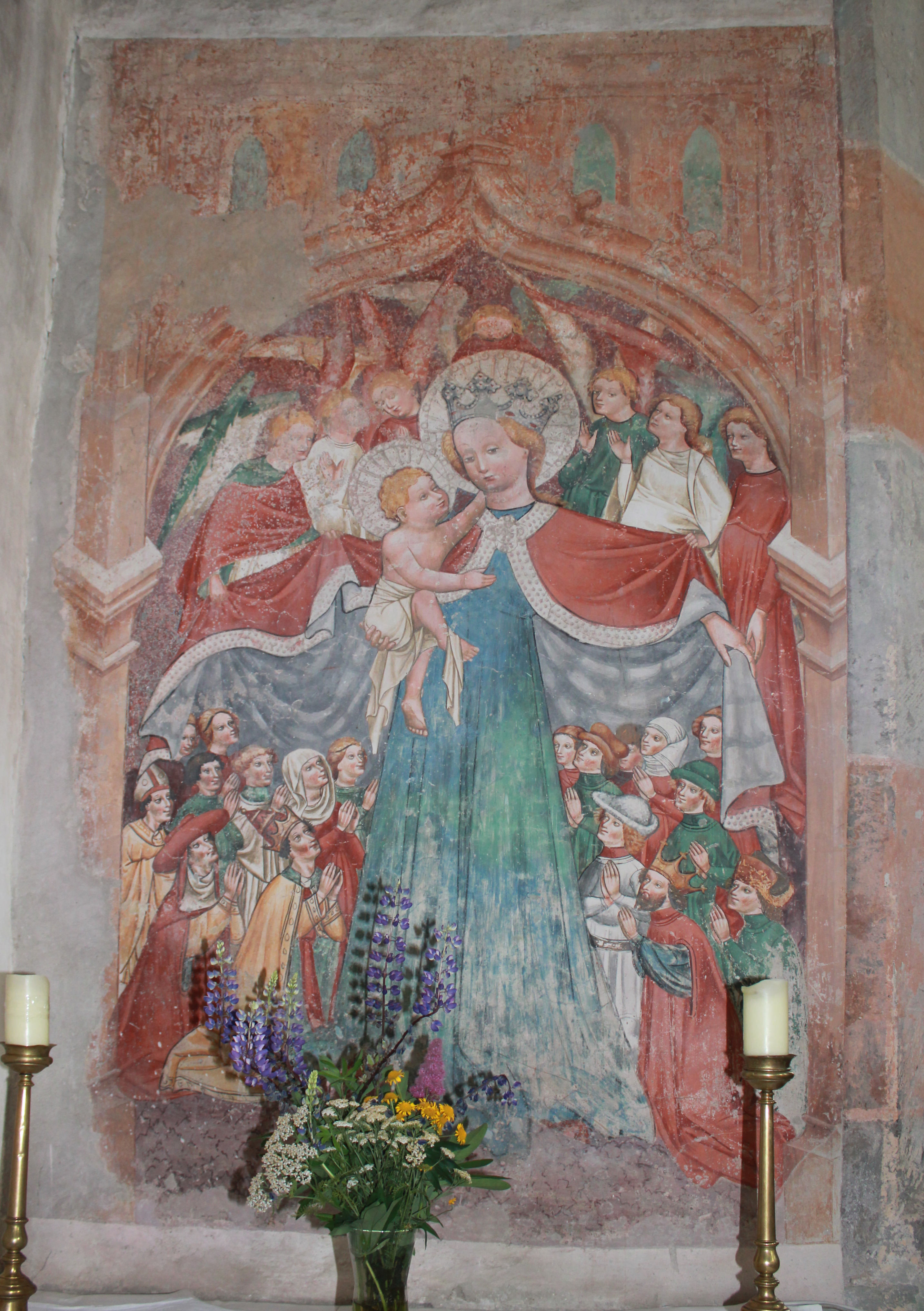 Parish church Altenmarkt in the community Weitensfeld im Gurktal - Altemmarkter Madonna